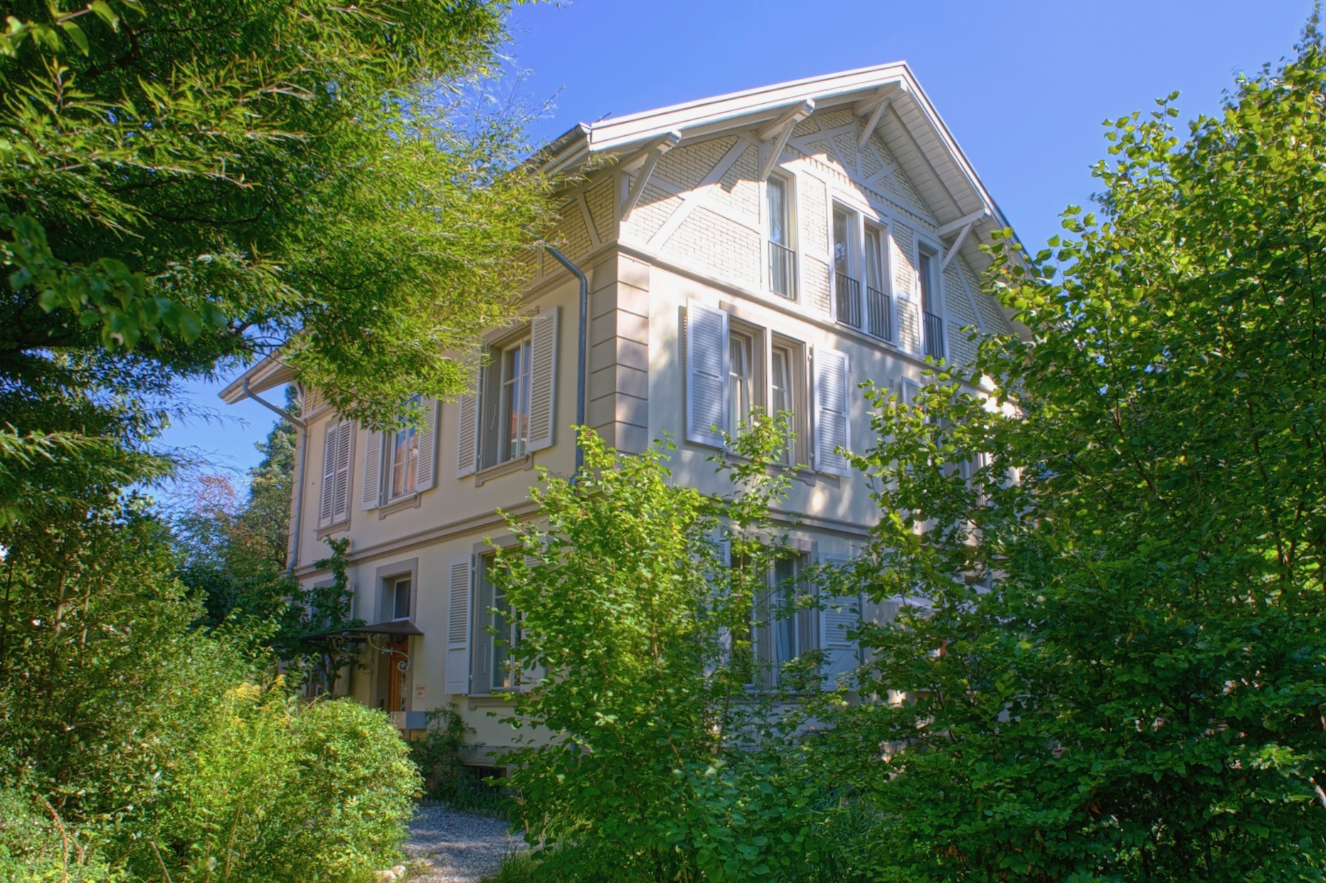 Soteria House in Berlin, Germany 2012. Alternative inpatient treatment of people in psychotic crises.